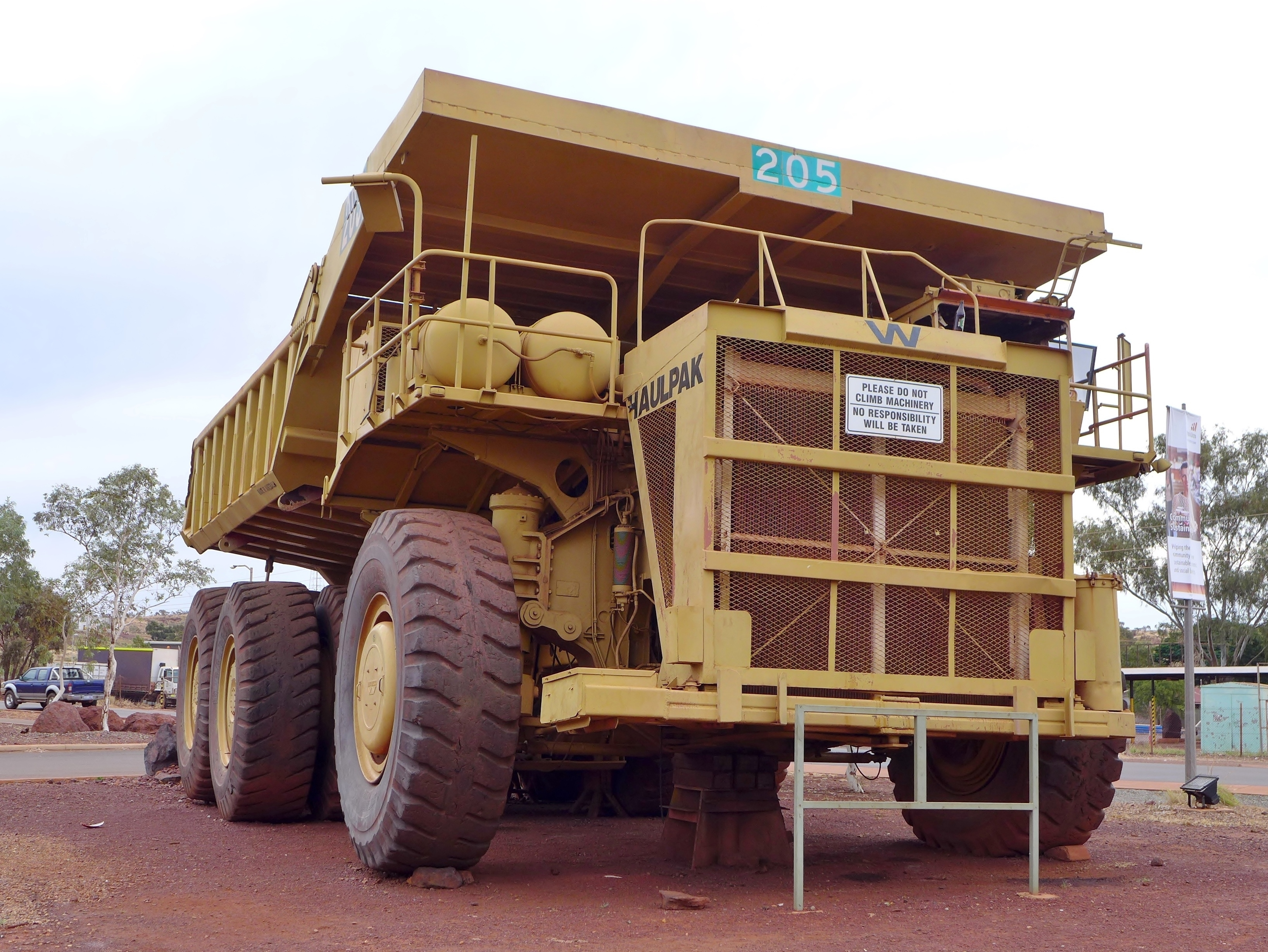 A preserved WABCO Haulpak previously in service with Mt Newman Mining, on display at the Newman Visitor Centre, Newman, Western Australia.